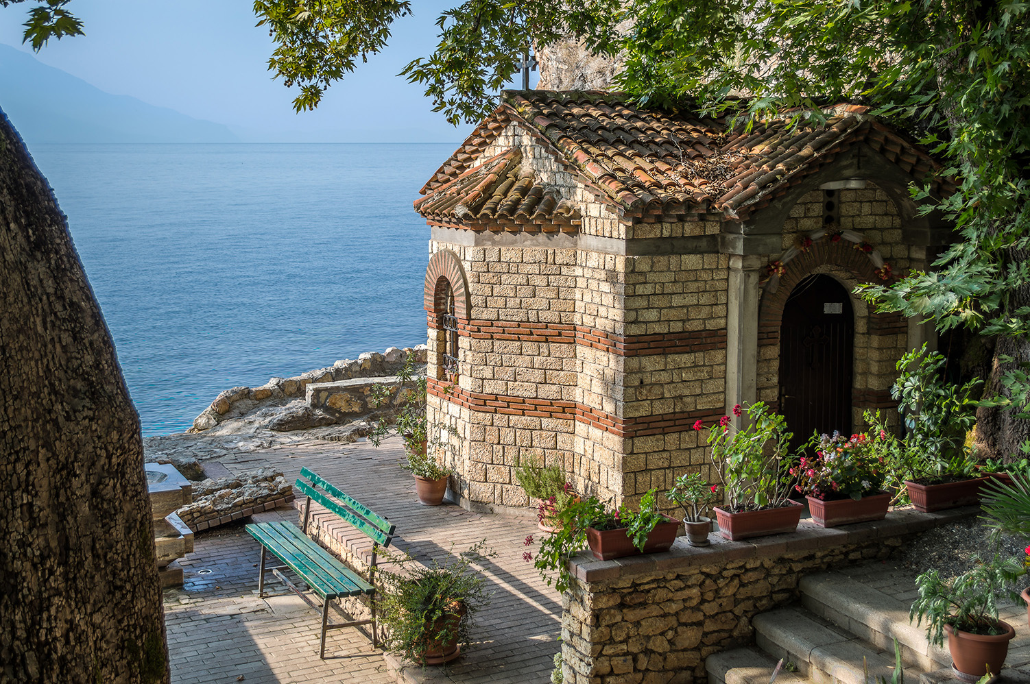 Church "Sv. Bogorodica i Sv. Petka", Ohrid, Macedonia